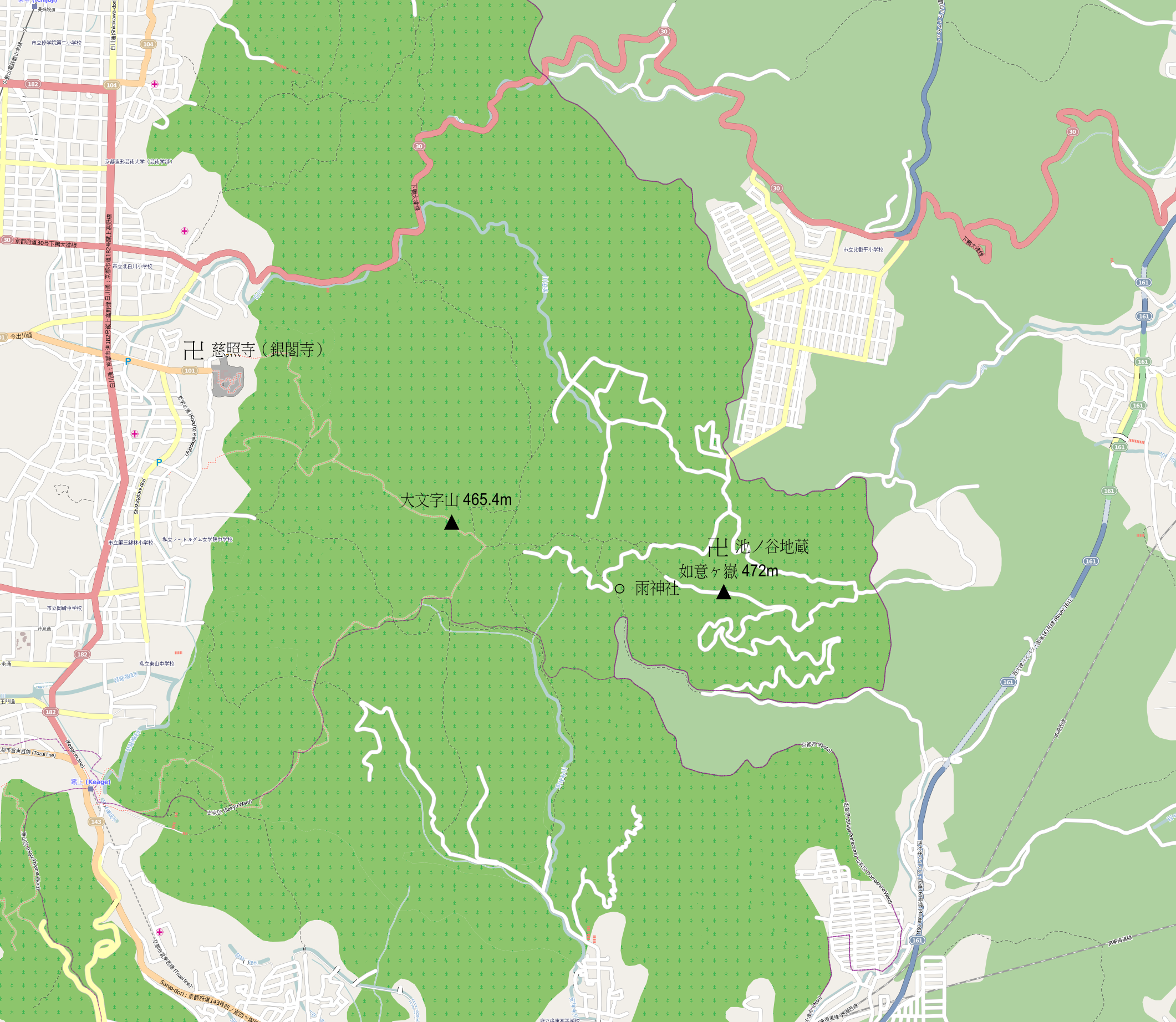 Nippon-Kyoto-mt.Nyoigatake(Mt Daimonjiyama)